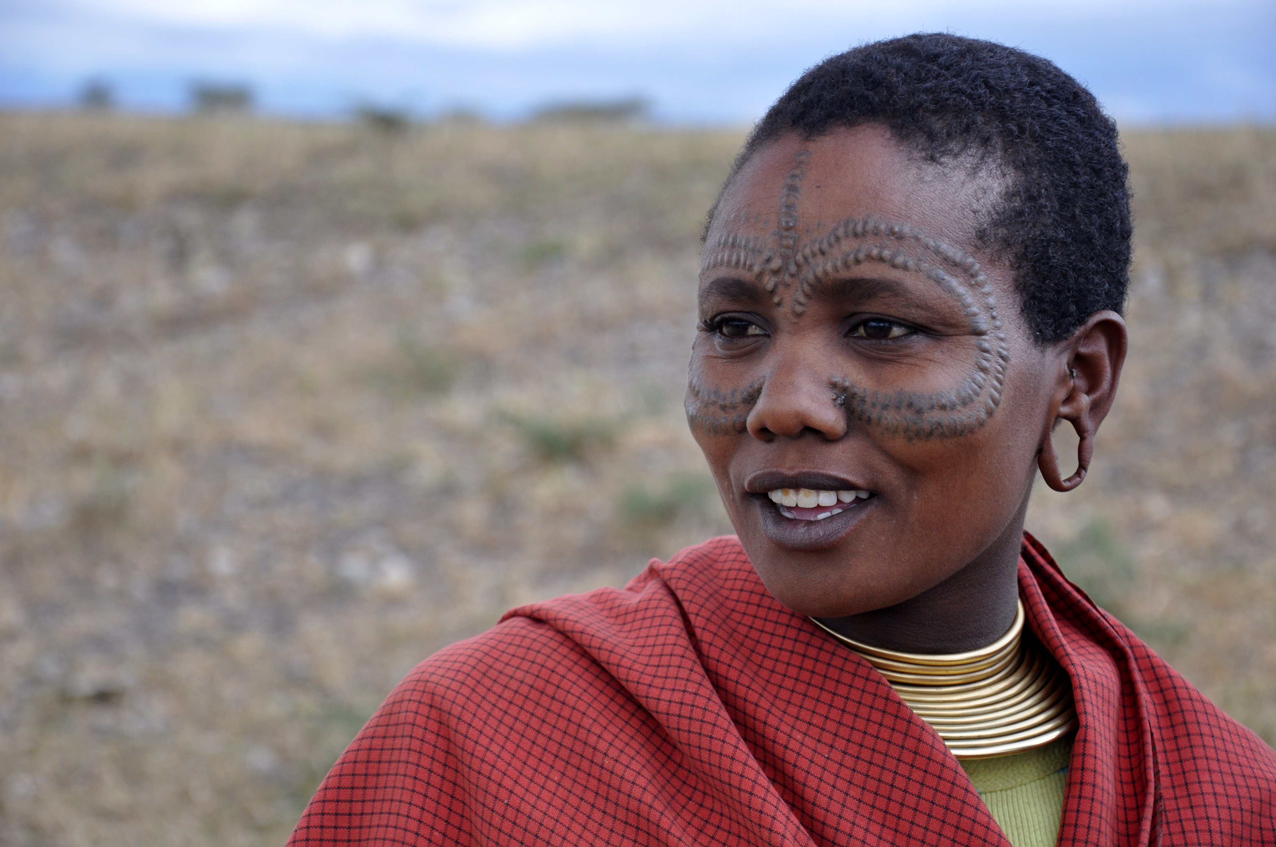 A traditional tatoo of Datoga people - Datoga woman in Tarangire National Park, Tanzania